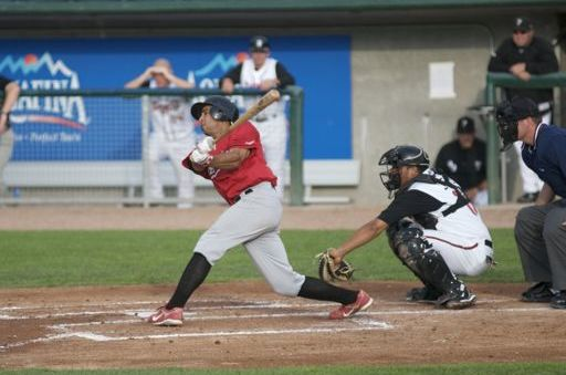 Oliver Marmol of the Quad Cities River Bandits bats against the Lansing Lugnuts in 2008.